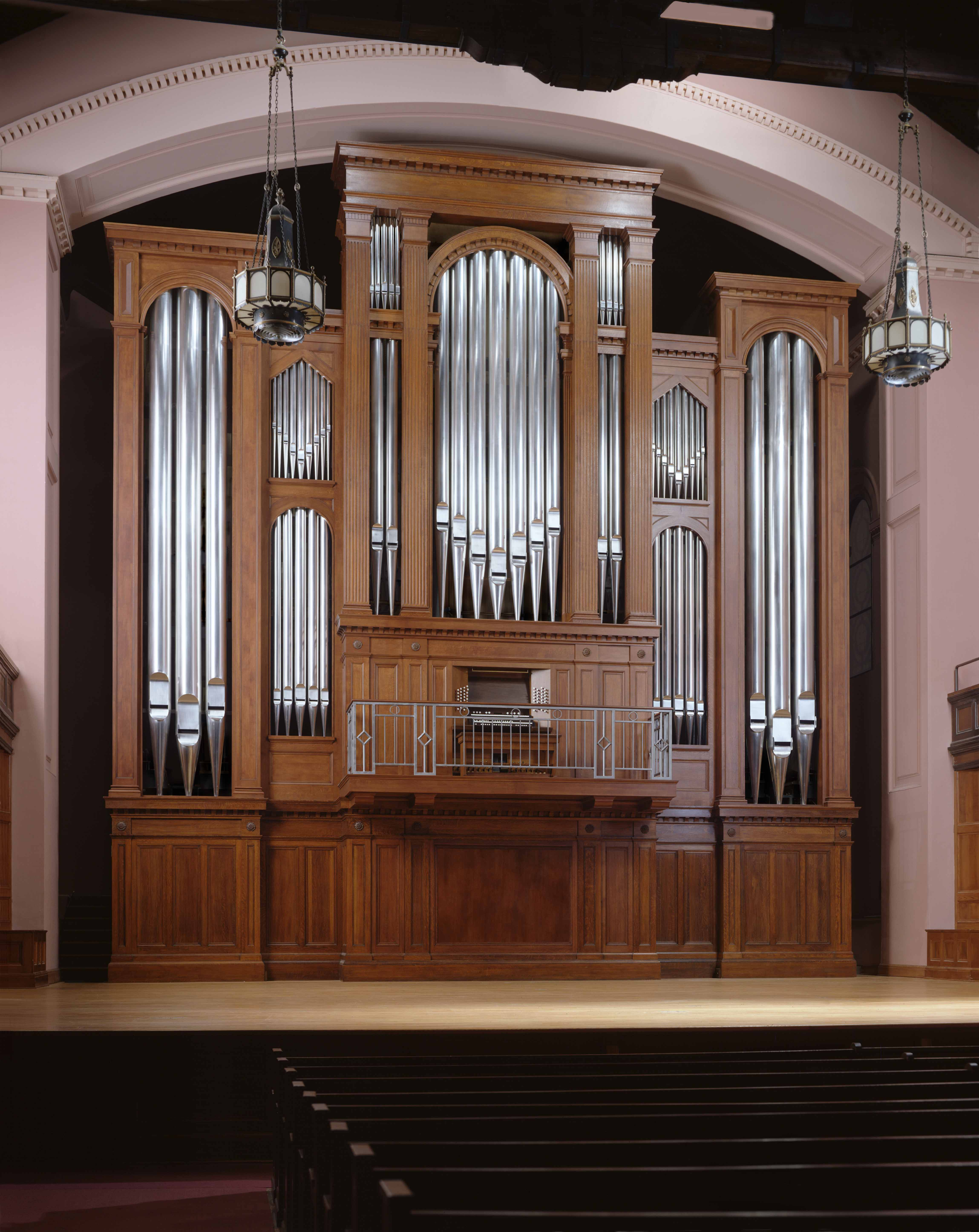 A photo of the C.B. Fisk organ, Opus 116, in Finney Memorial Chapel, Oberlin College, Oberlin, Ohio.